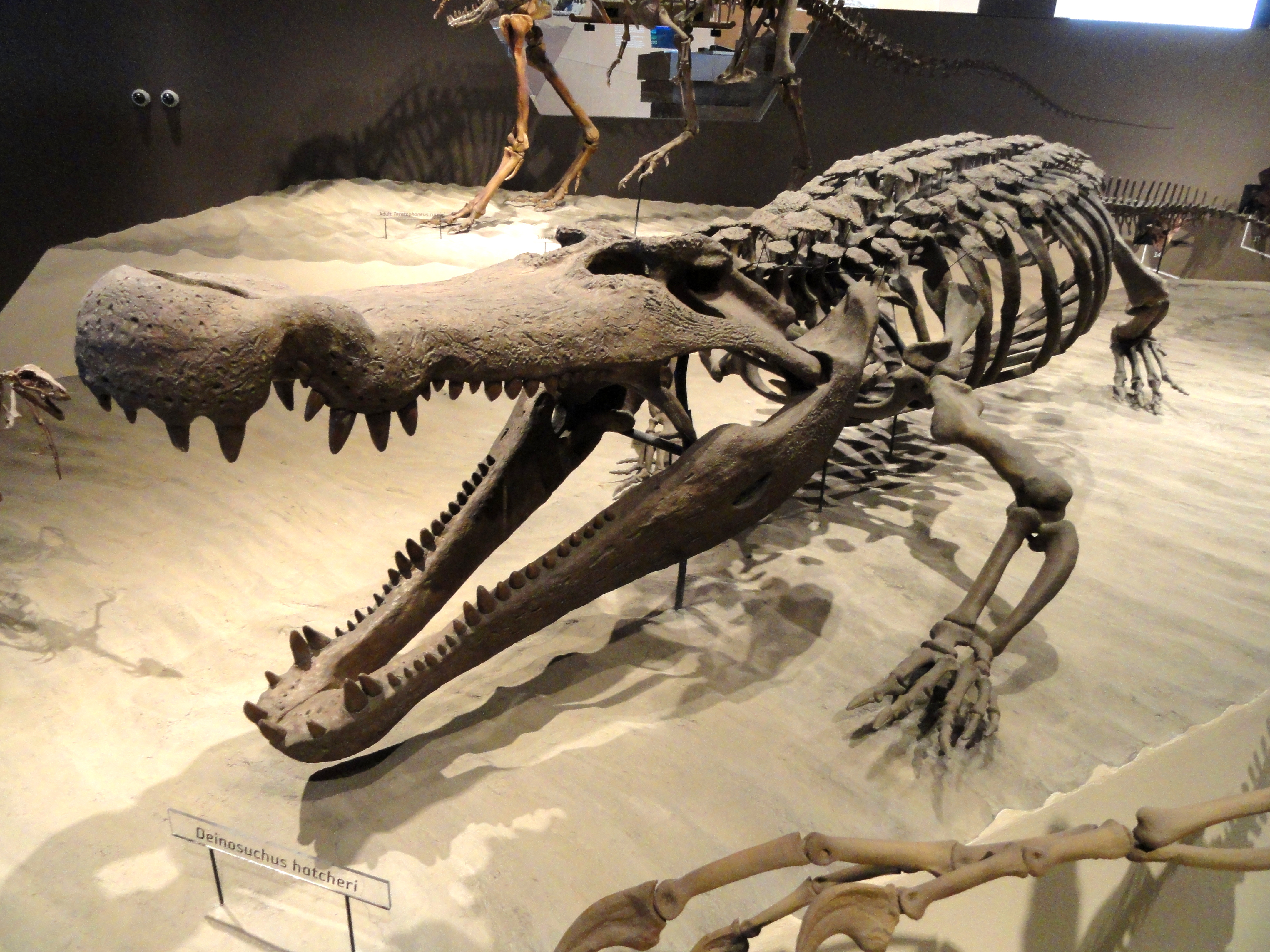 Fossil specimen in the Natural History Museum of Utah, Salt Lake City, Utah, USA.